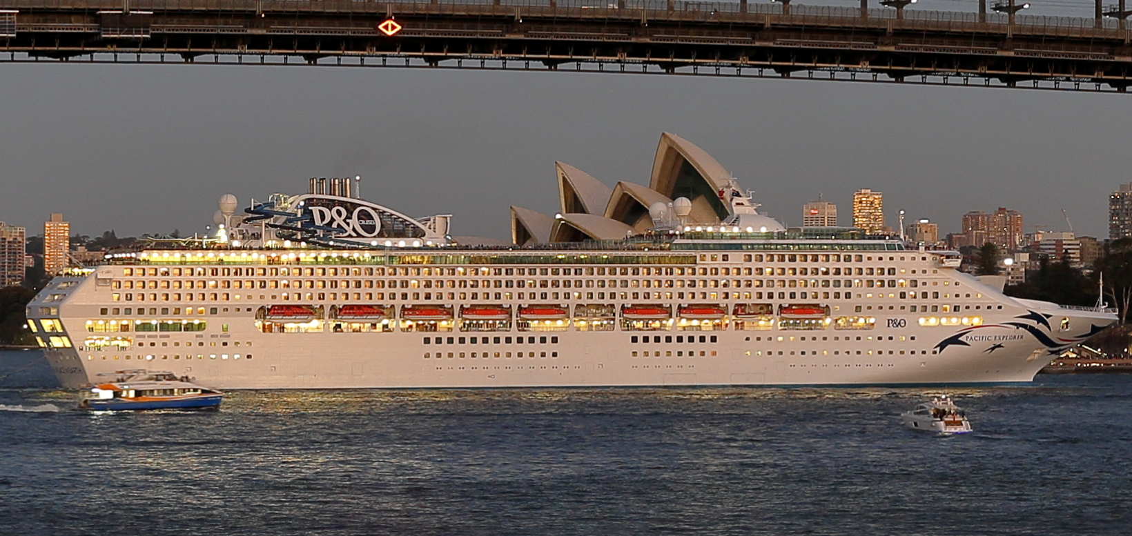 Pacific Explorer in Sydney, Australia 2 July, 2017